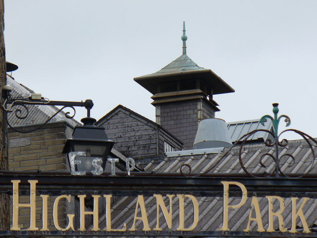 Highland Park Distillery Pagoda